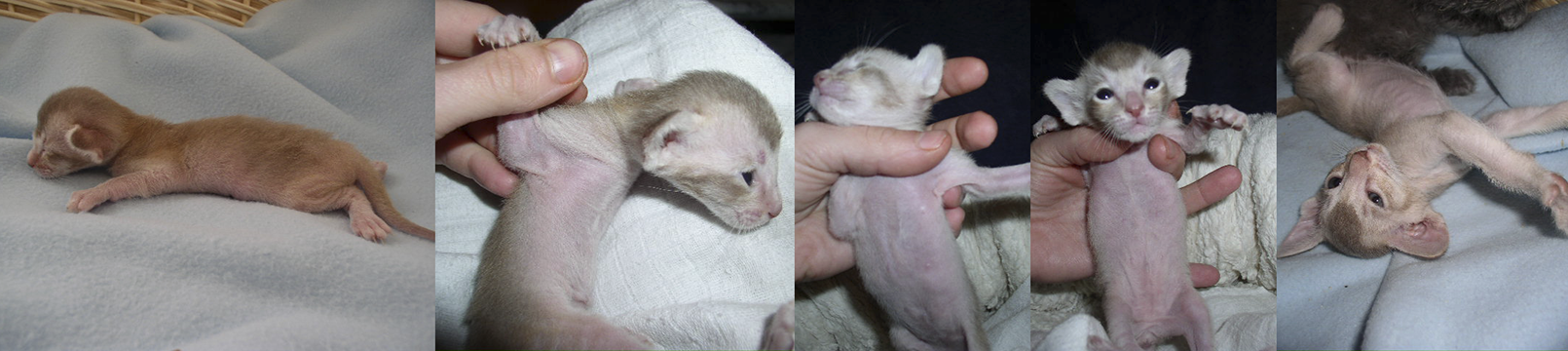 Oriental kitten with moderate to severe FCKS